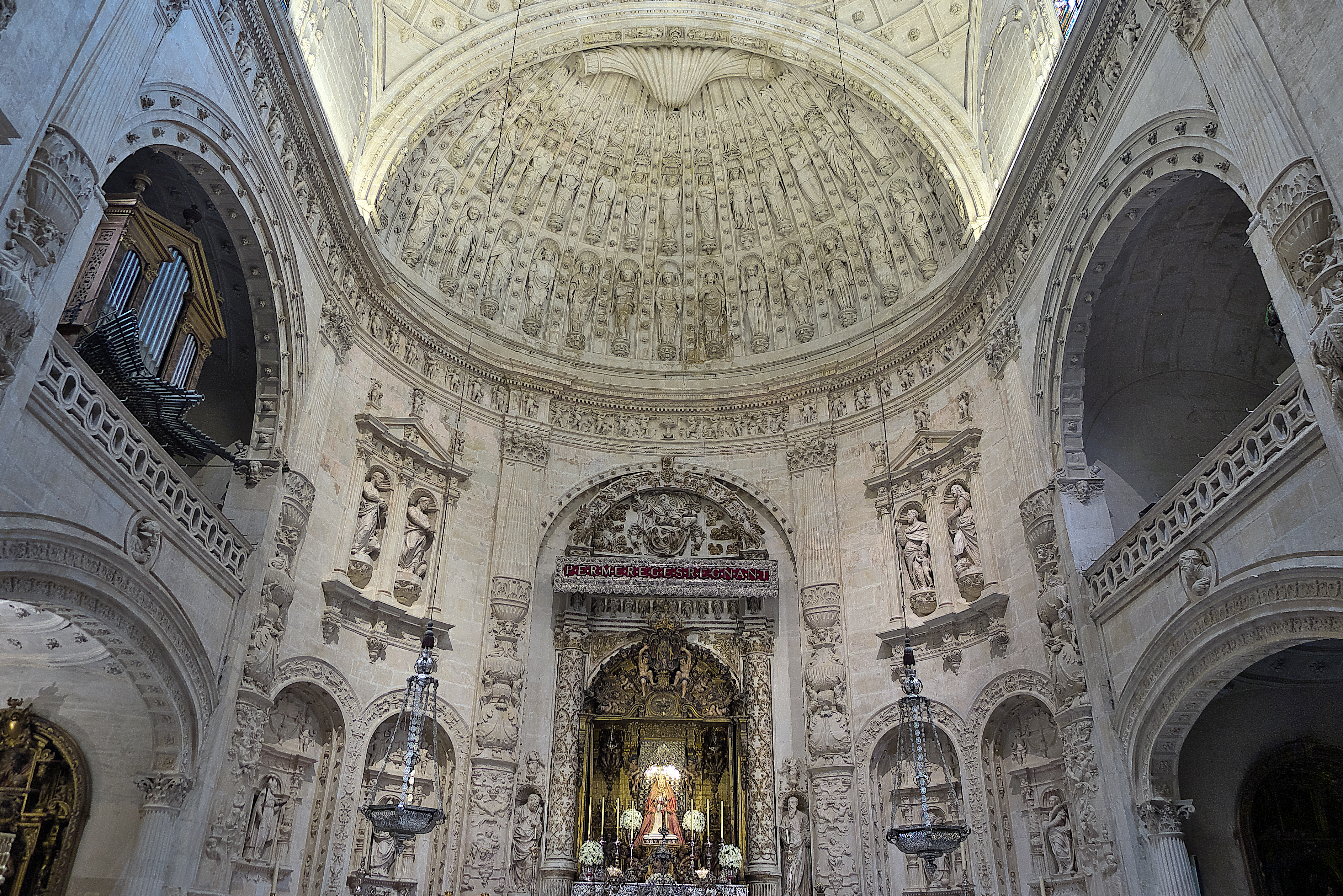 Royal Chapel